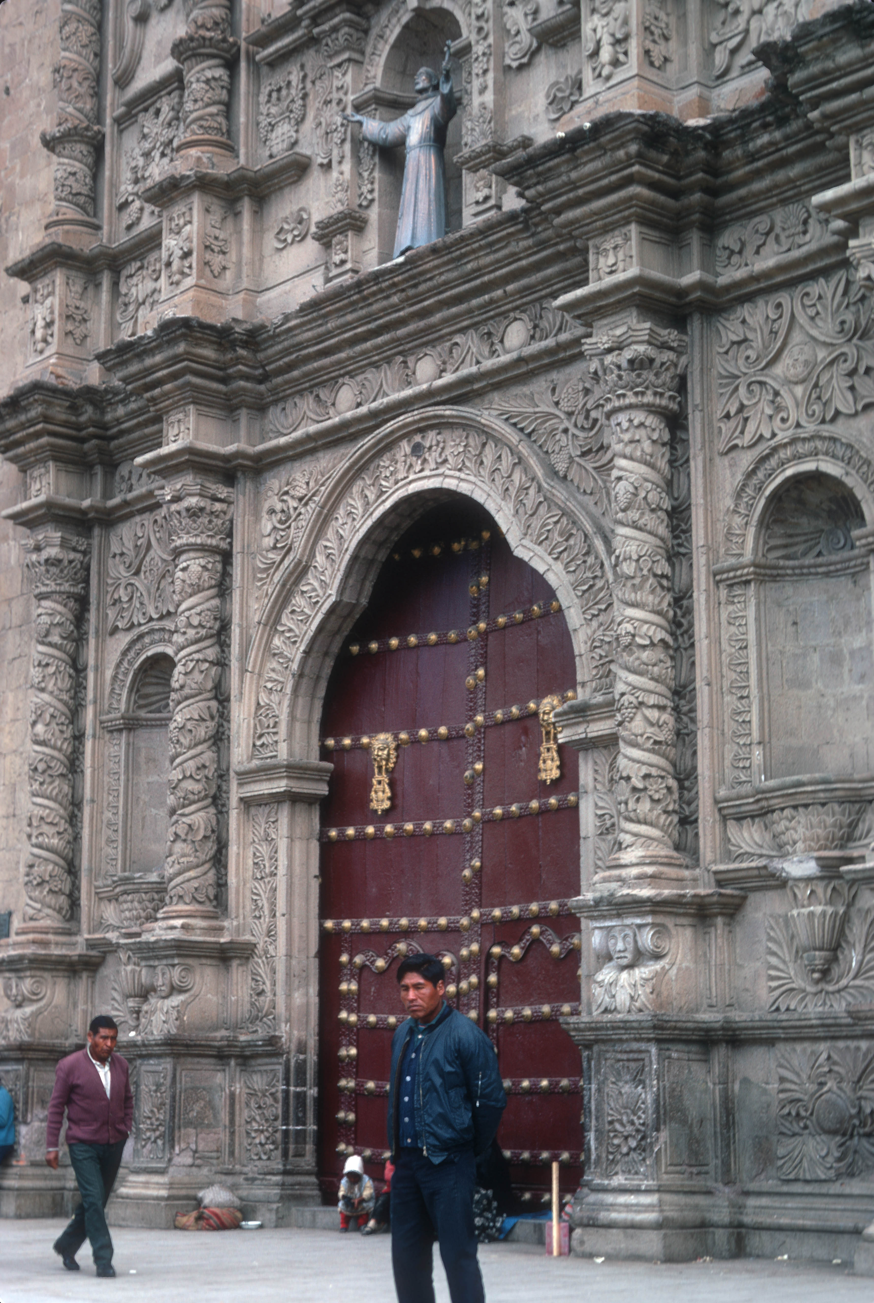 FOUNDED IN 1548 AND REBUILT 1784.